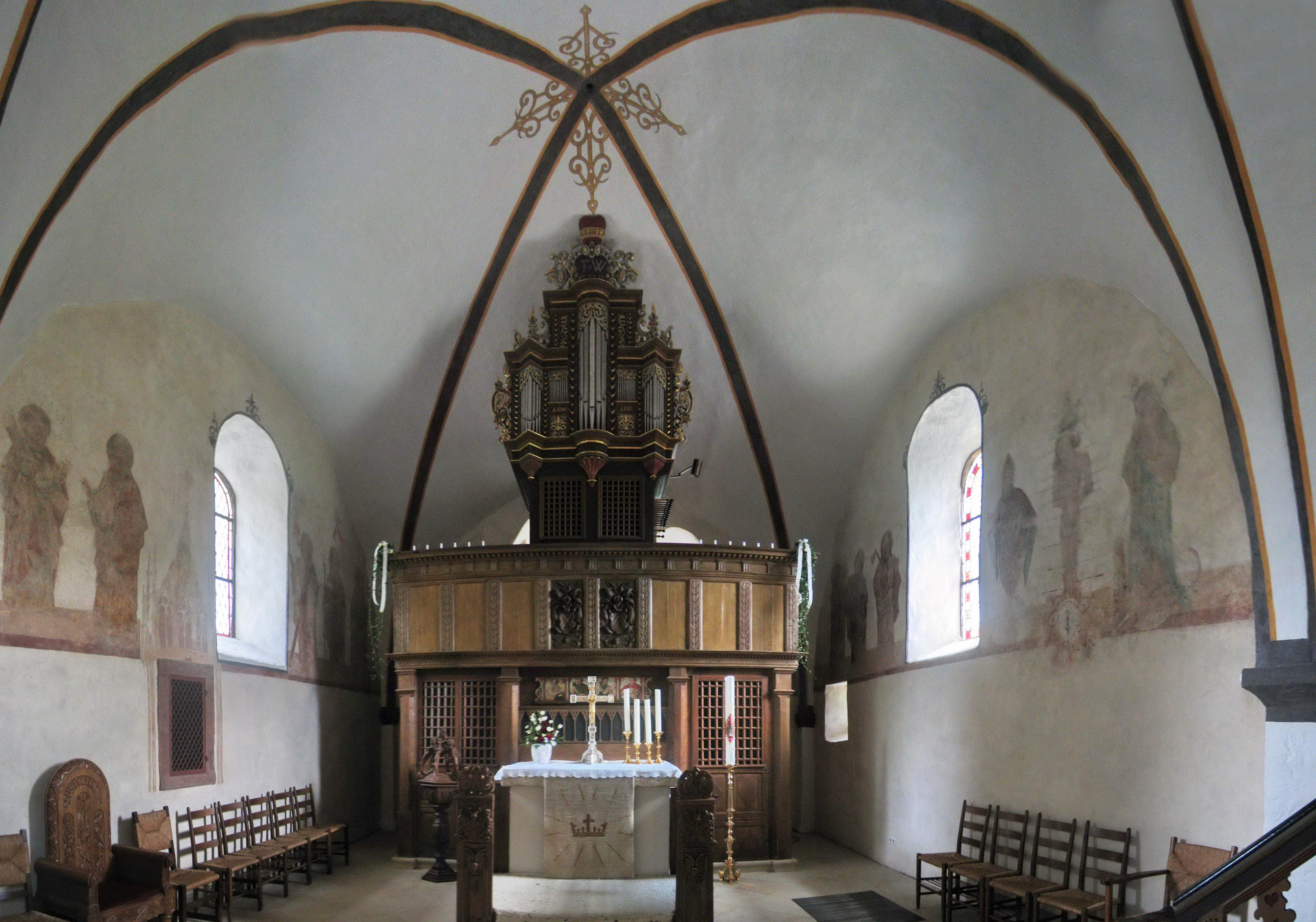 Altar and organ of St. Ulricus in Preußisch Oldendorf, District of Minden-Lübbecke, North Rhine-Westphalia, Germany.